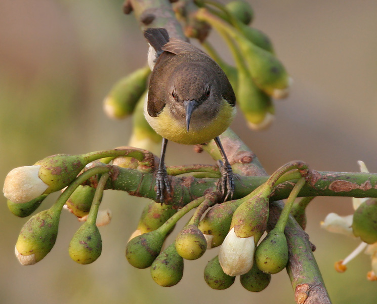 Purple-rumped Sunbird Leptocoma zeylonica in Kolkata, West Bengal, India.